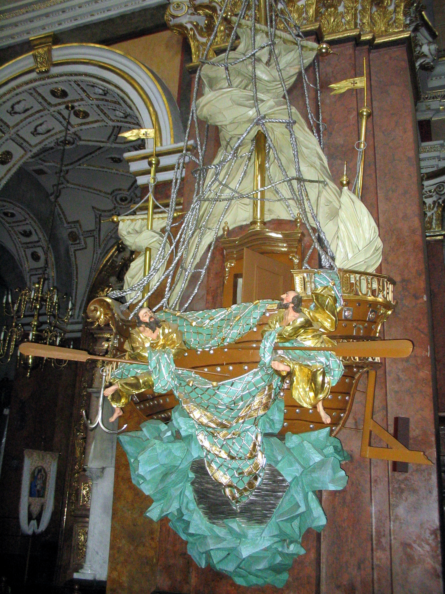 Carmelitan Church in Przemyśl, Poland